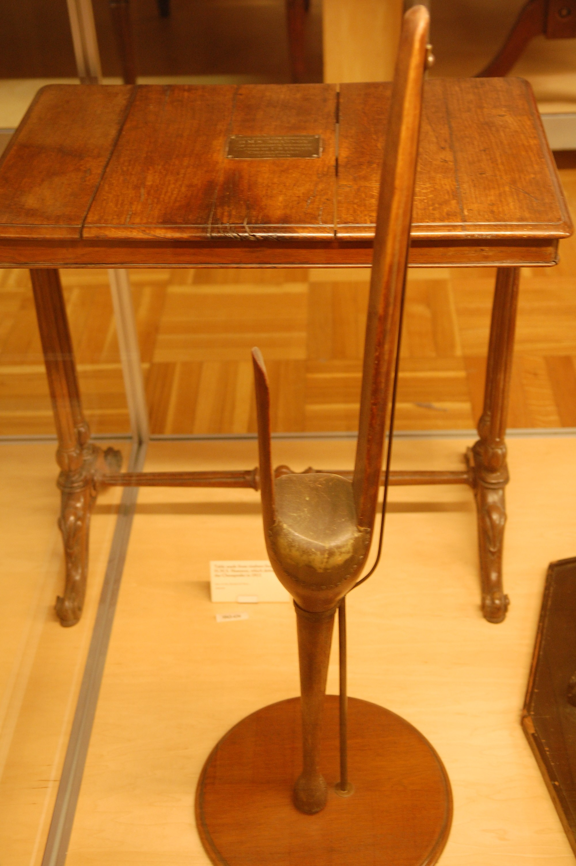 Wooden leg of Gouvernour Morris mounted on stand ca. 1780. Oak, leather, metal: 42 1/2 x 14 1/2 in. ( 108 x 36.8 cm ). New-York Historical Society, Gift of Mrs. Frederick Menzies, 1954.148. Wikipedia Loves Art at the New-York Historical Society This photo of item # 1954.148 at the New-York Historical Society was contributed under the team name "the_adverse_possessors" as part of the Wikipedia Loves Art project in February 2009. New-York Historical Society The original photograph on Flickr was taken by _cck_—please add a comment to the original Flickr page whenever a use has been made on Wikipedia or another project. Project galleries on Flickr: this institution, this team